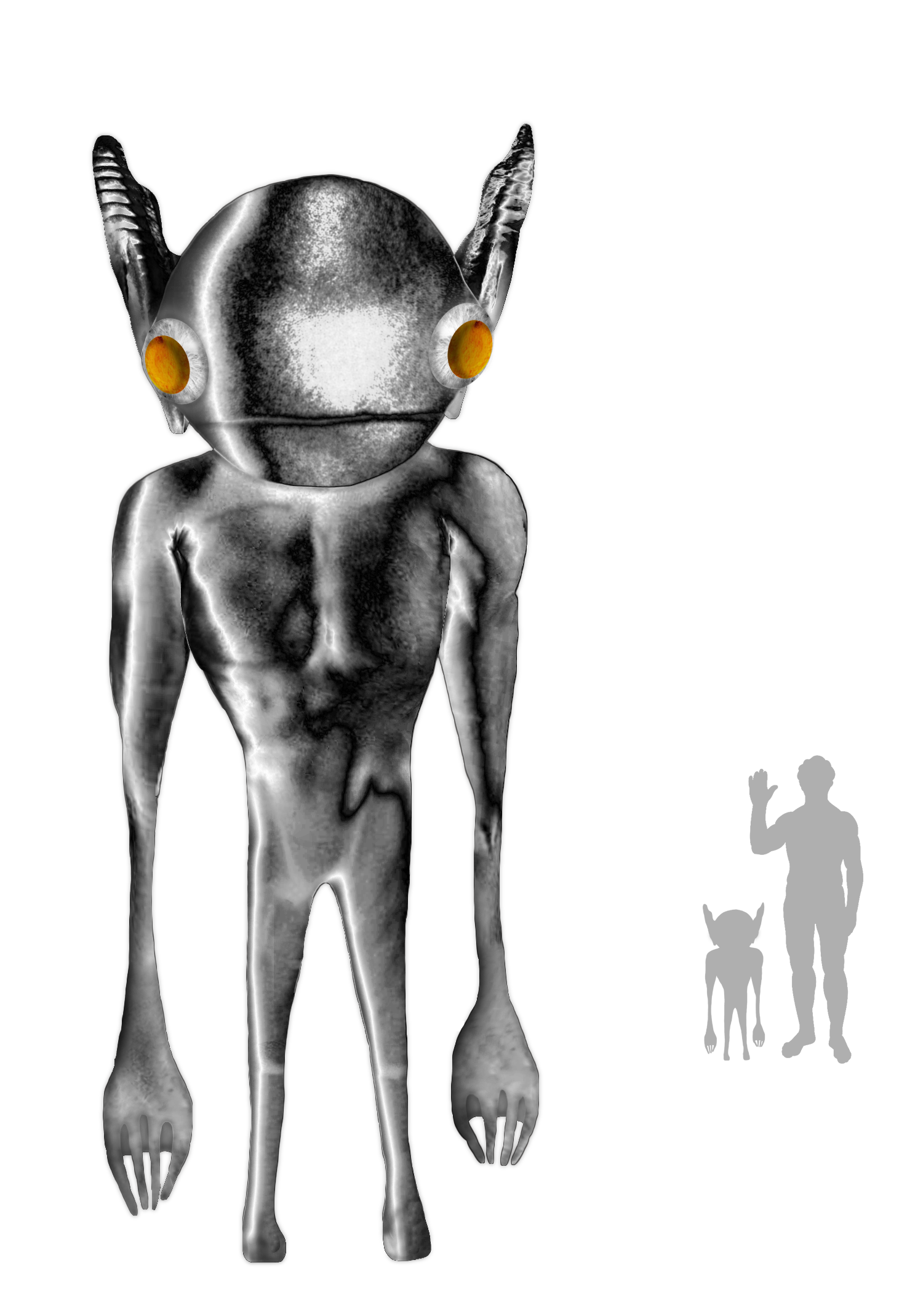 Artist's impression of an Hopkinsville goblin